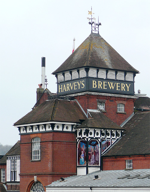 Harveys Brewery (detail), Lewes, East Sussex A significant development in the architecture has appeared since the photograph submitted earlier in 2008. A mural (just for Christmas?) has been painted, replacing windows below the main tower. Harvey's has been brewing in Lewes for over two hundred years.A wine merchant, John Harvey brewed his first pint in Bear Yard opposite the current site. He was brewing part time, sharing his plant with another brewer, Thomas Wood. In 1838 he built a new brewhouse on the current Bridge Wharf site which he had purchased for £3,707 and went into business with his three sons. It was Henry Harvey who took over the brewing - he was producing stout, ale and porter in the mid 19th century. Detailed Brewery History